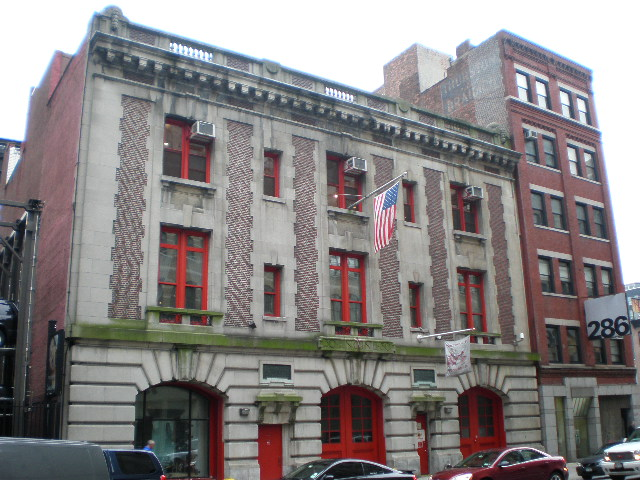 This photo is of Wikipedia Takes Manhattan location code 136, New York City Fire Museum.